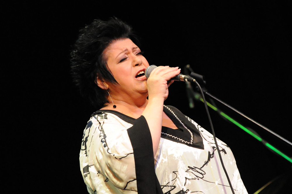 Ewa Bem performing at a benefit concert in November 2010 in Warszawa, Poland.